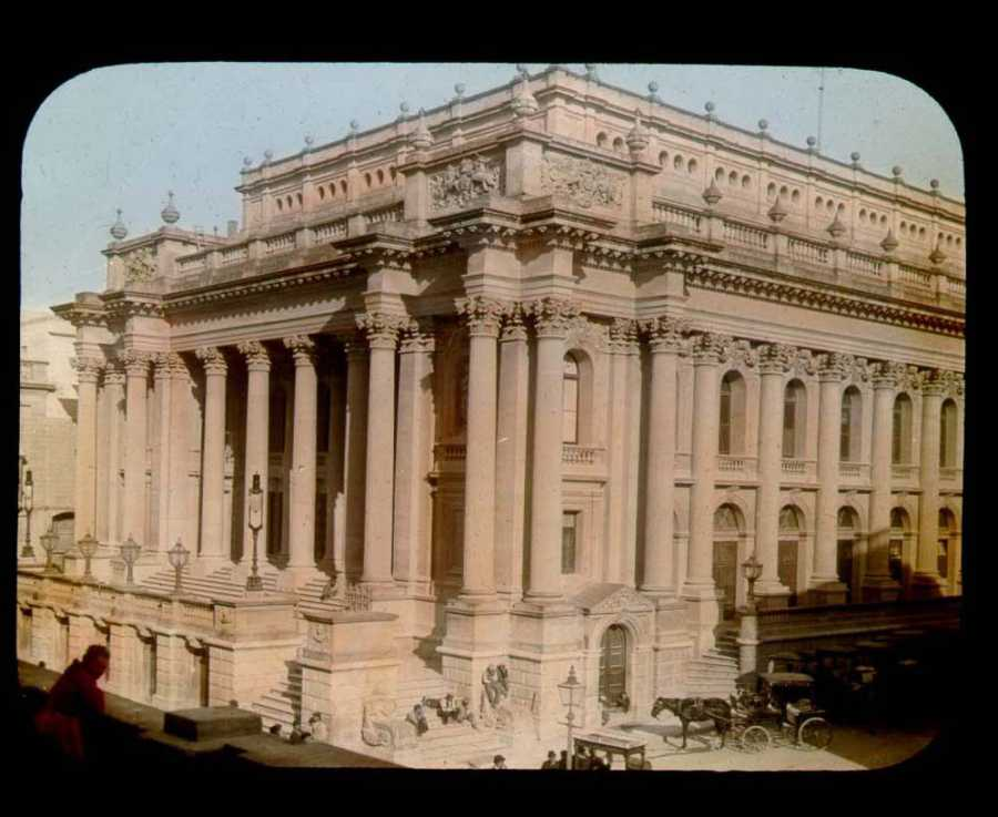 Malta Opera House exterior. People on steps, horse and carriage on the street. 1896. Name of Expedition: Africa Expedition Participants: D.G. Elliot and Carl Akeley Expedition Date: 1896 Purpose or Aims: Zoology Mammals Location: Europe, Malta Original material: Hand-colored glass lantern slide Digital Identifier: CSZ5985_LS